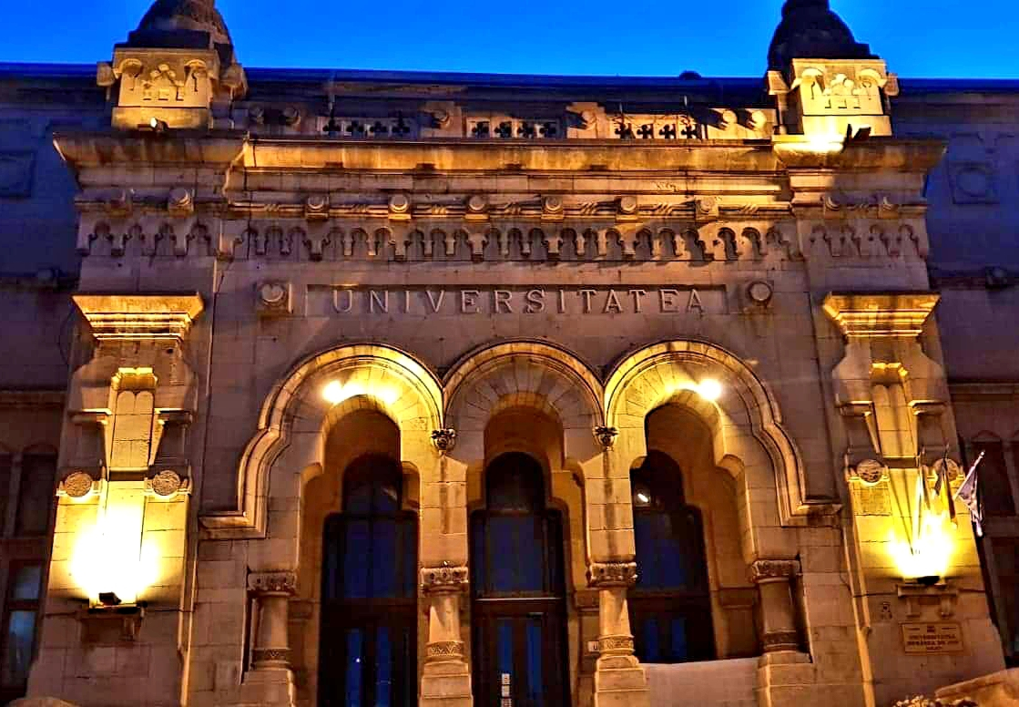 Dunarea de Jos University of Galati ranked 8th in Romania